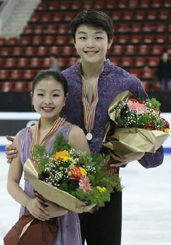 Maia Shibutani & Alex Shibutani during the ice dancing medals ceremony at the 2009 World Junior Championships.